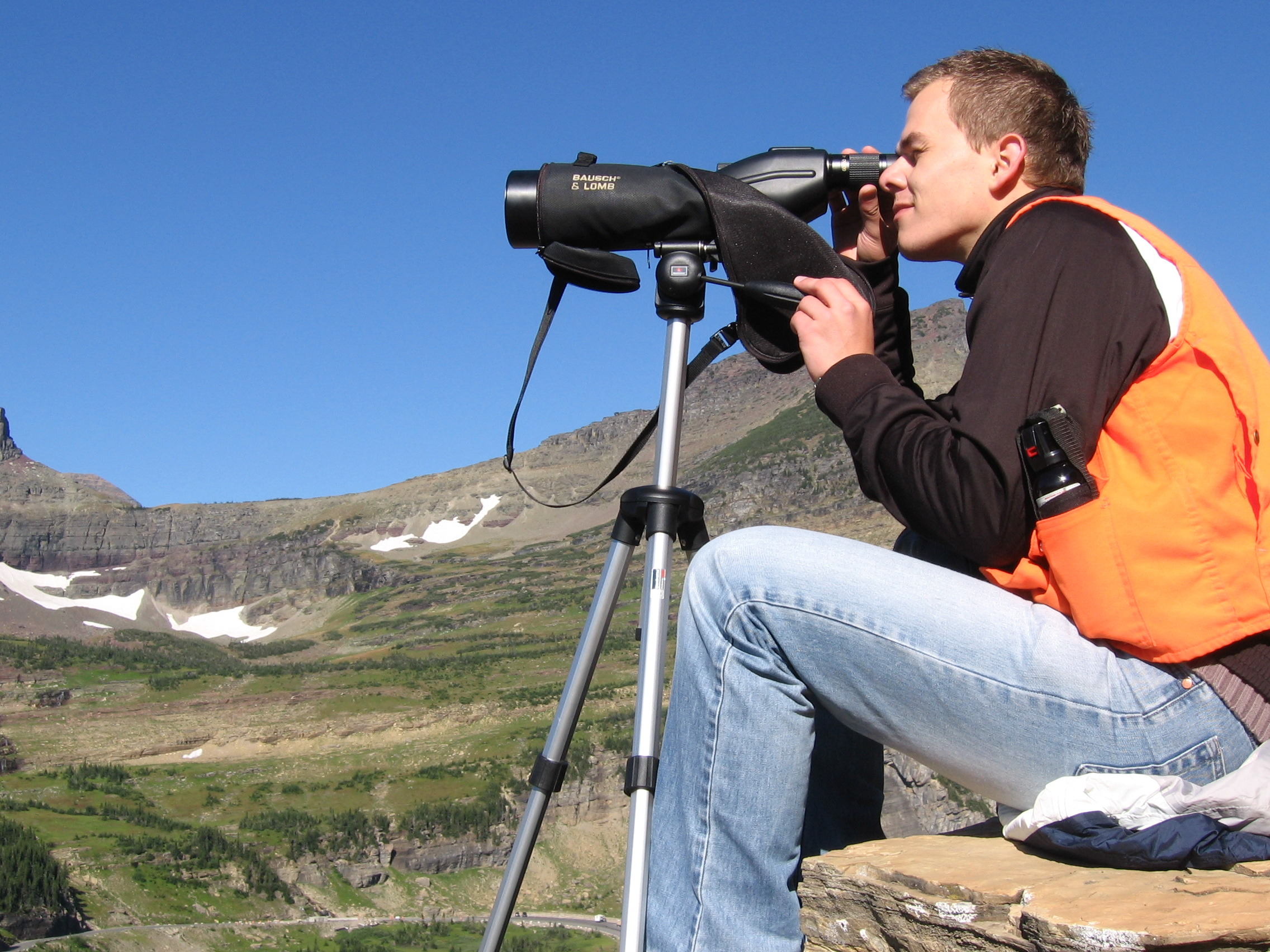 Scanning the cliffs for mountain goats as part of the high country citizen science project.